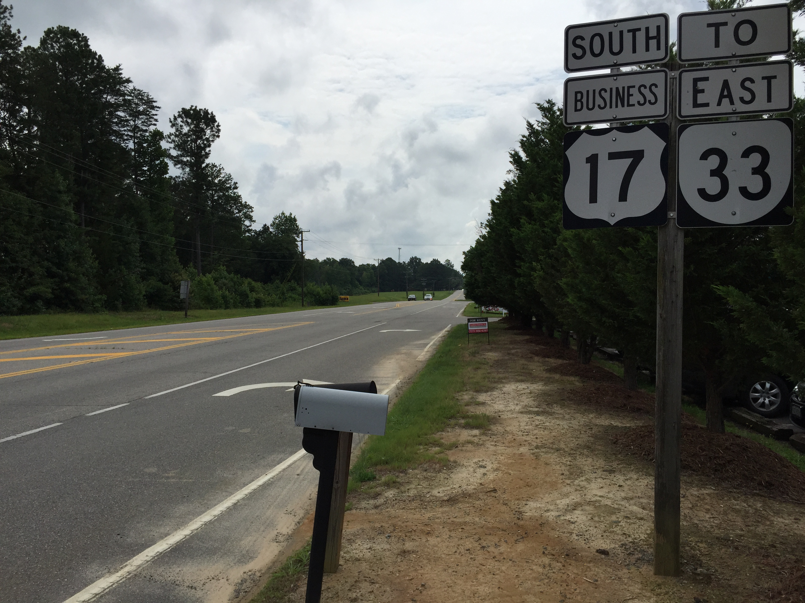 View south along U.S. Route 17 Business (School Street/General Puller Highway) at U.S. Route 17 (Tidewater Trail) in Saluda, Middlesex County, Virginia